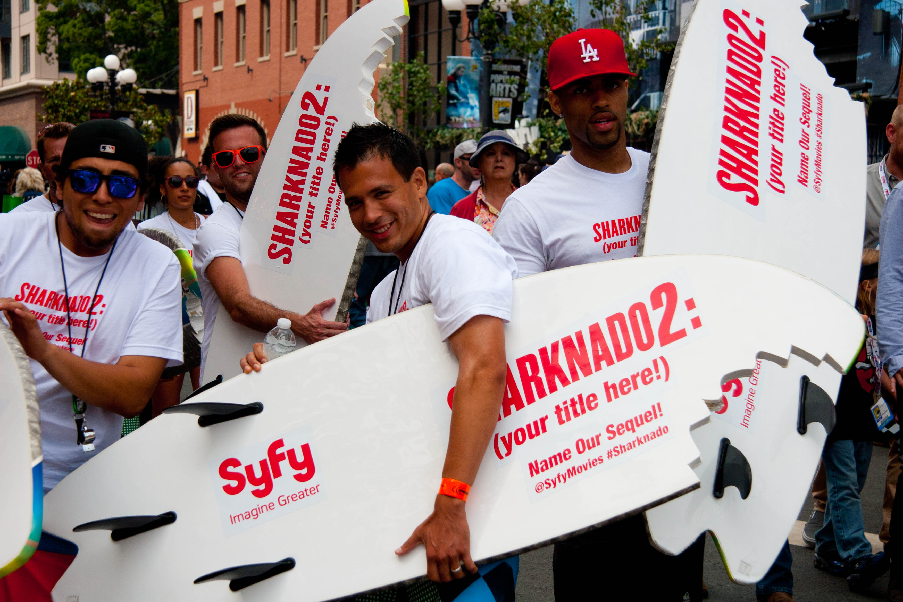 people promoting Sharknado 2 at San Diego Comic Con International in 2013